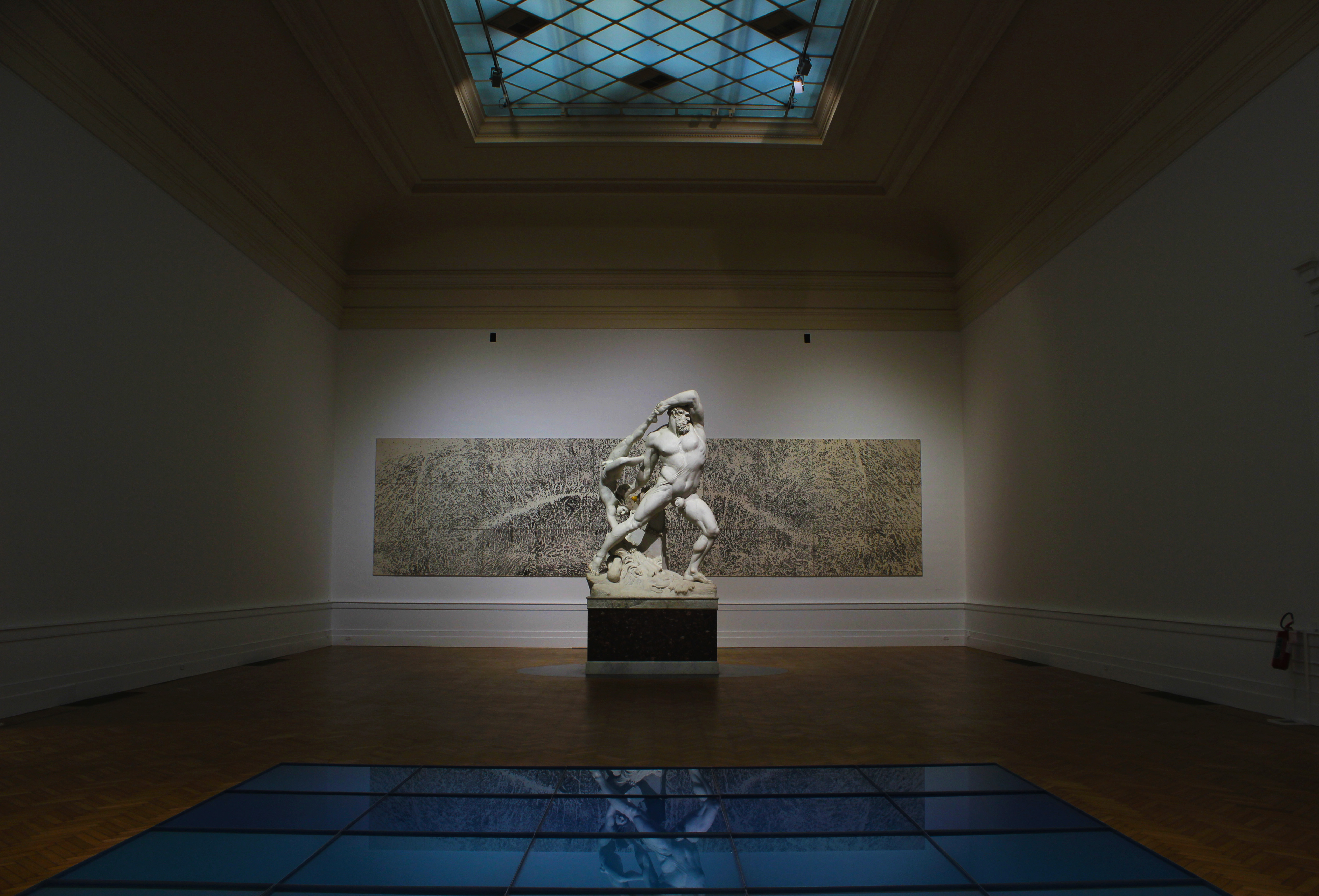 Scuplture by Antonio Canova